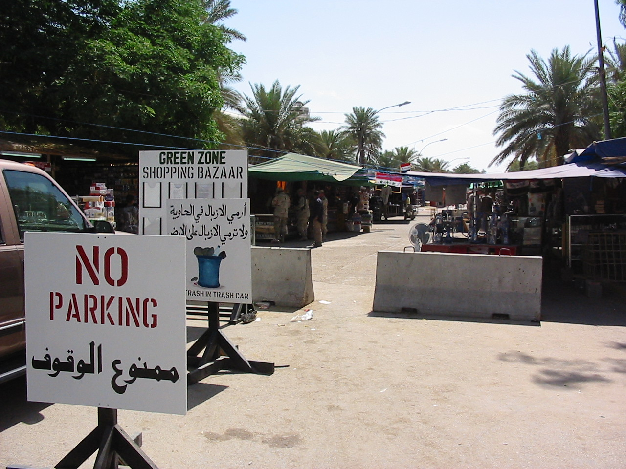 The entrance to the bazaar in the Green Zone, Baghdad, Iraq, summer en:2004.